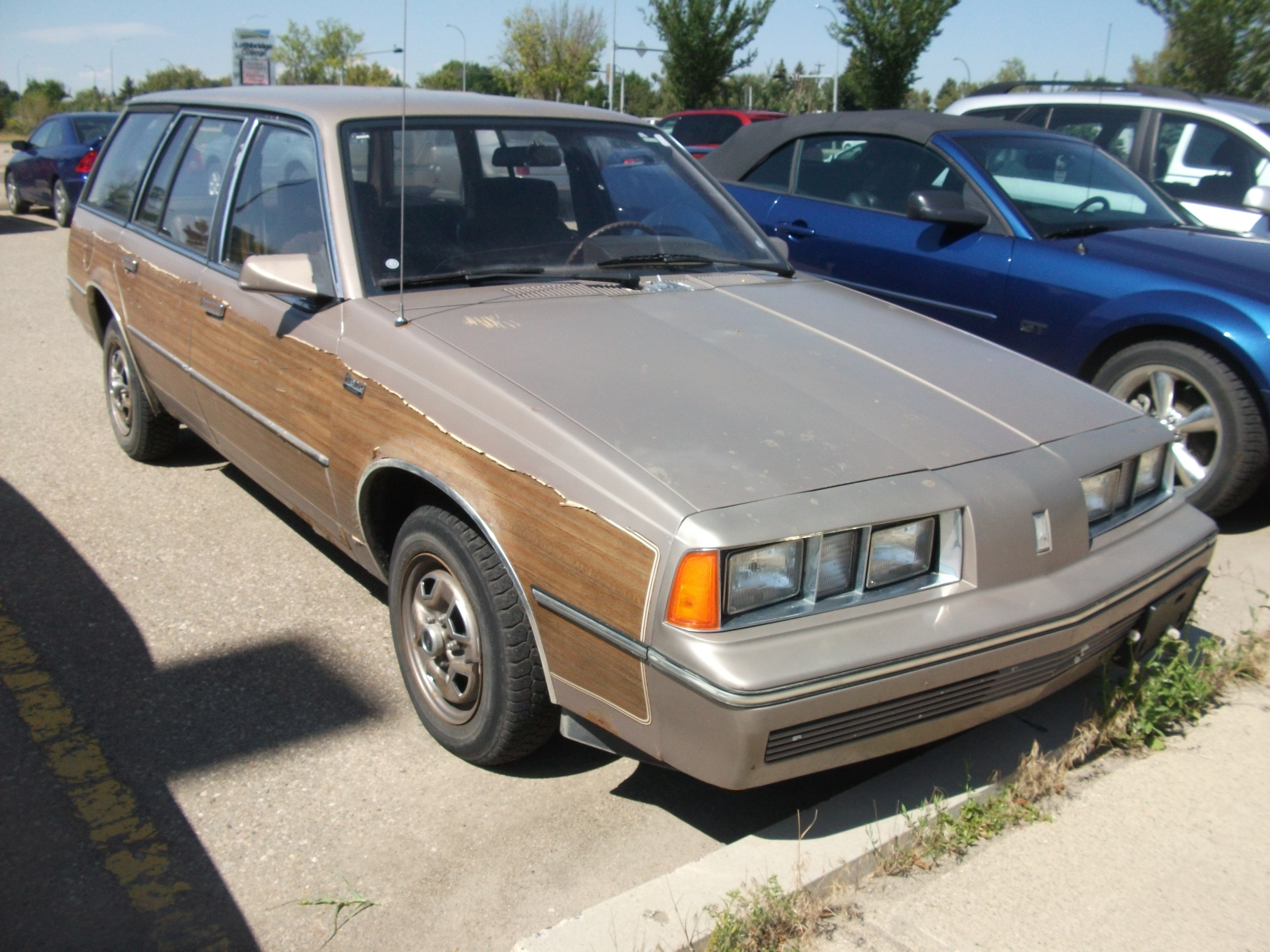 Oldsmobile Firenza Station wagon complete with peeling, fake wood grain sides.